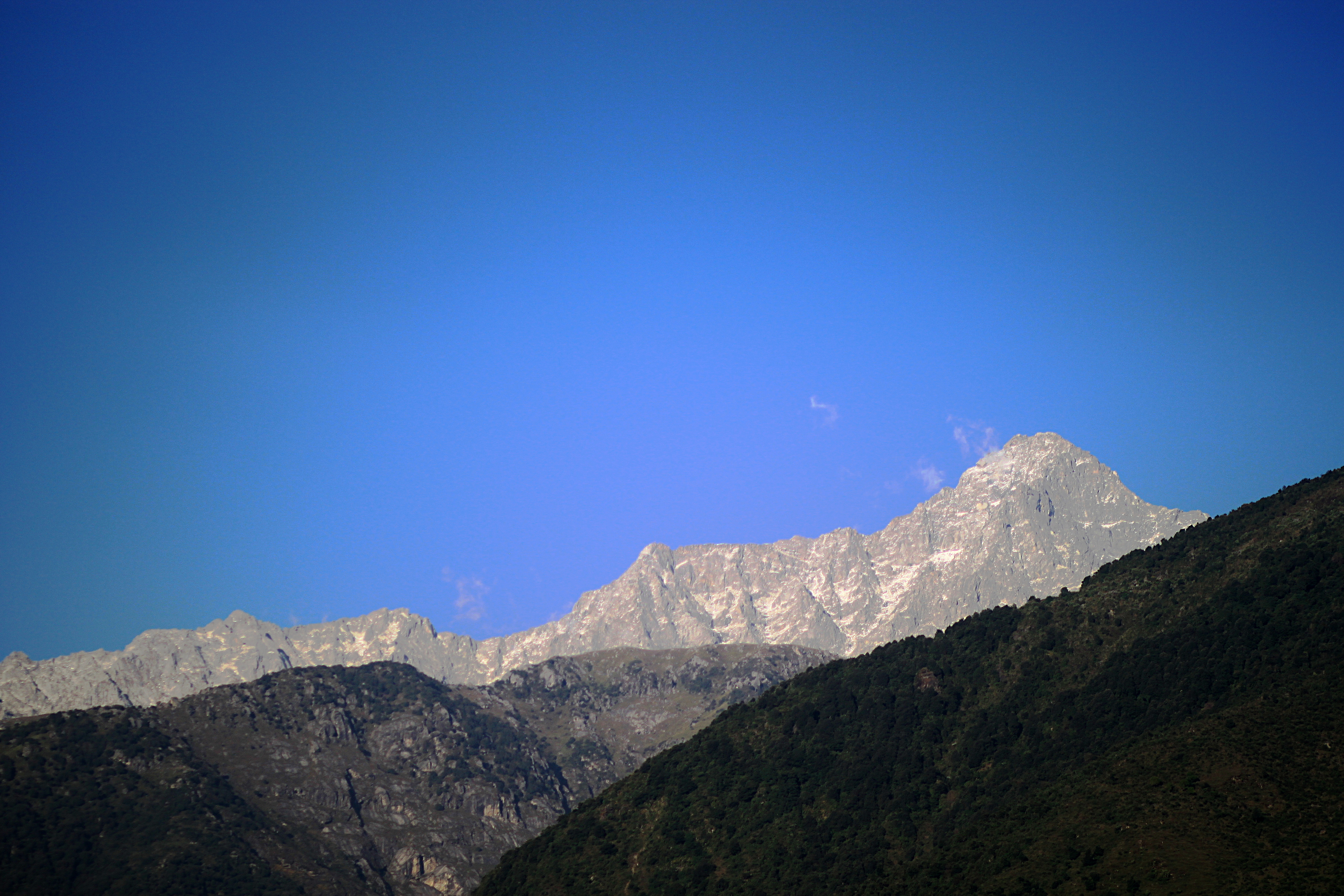 Layers of the Dhauladhar mountain range in the Himalayas, as seen from Rakkar village near Dharamsala in Himachal Pradesh, India.